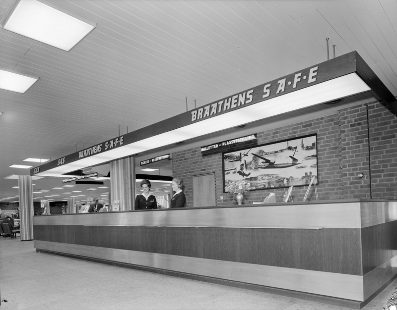 Braathens SAFE ticket office at Oslo Airport, Fornebu